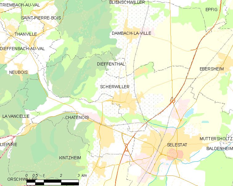 Map of French municipality